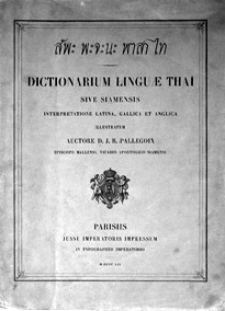 Cover of Jean-Baptiste Pallegoix: Dictionary of Thai-Latin-English